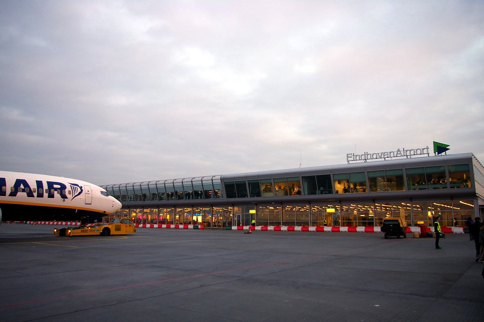 Eindhoven airport (Luchthaven Eindhoven) terminal building, Netherlands